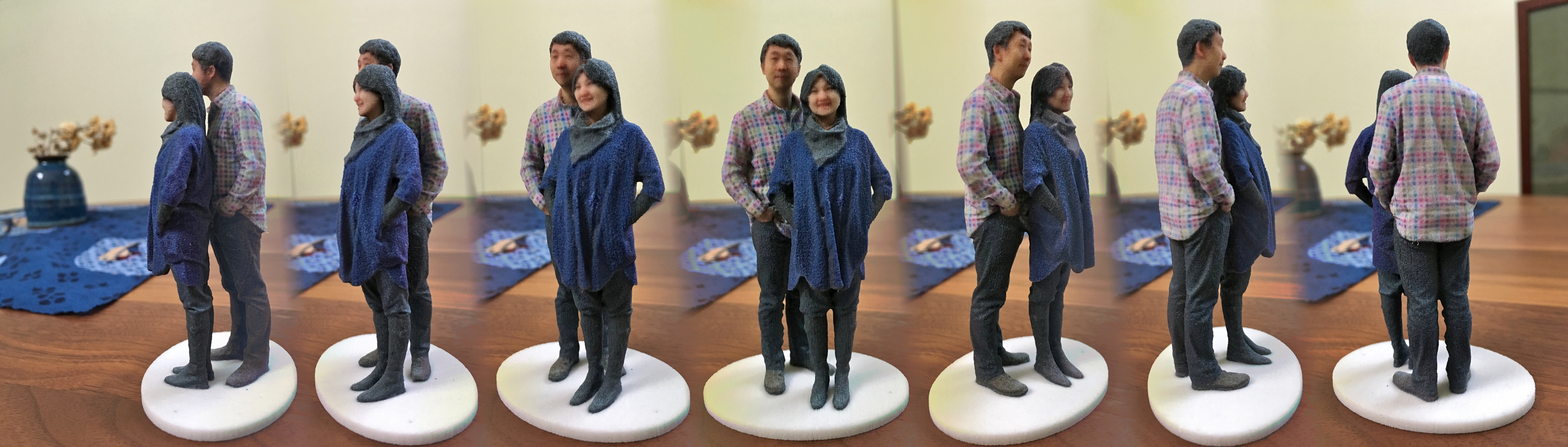 A 3D selfie in 1:20 scale printed by Shapeways, created by Madurodam miniature park from 2D pictures taken at its Fantasitron photo booth. The Full Color Sandstone printing technique is a form of Powder bed and inkjet head 3D printing.